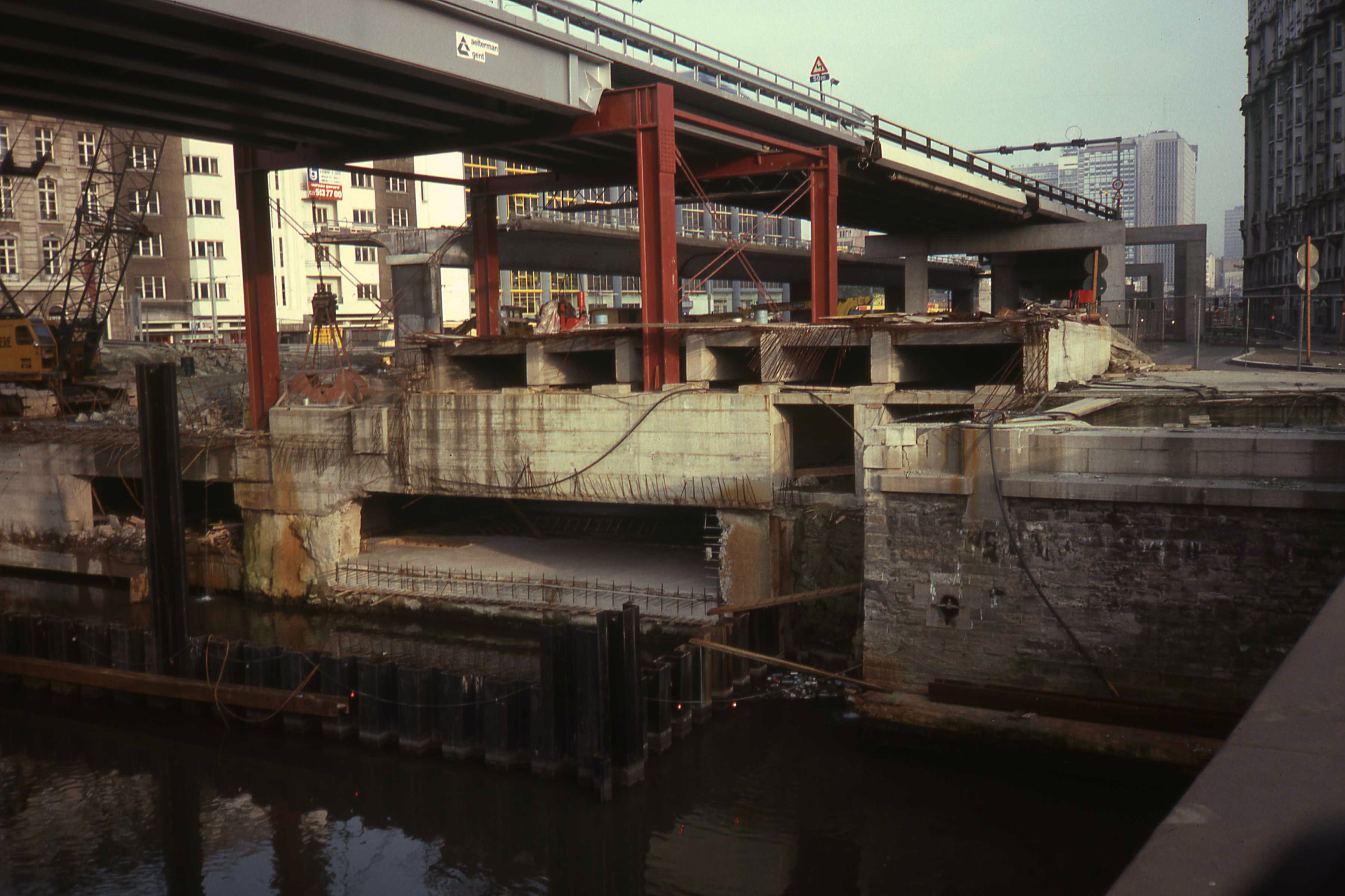 Building works for a road and metrotunnel (line 2) by the crossing of the canal at the Sainctelette square in Brussels. Visible is a temporary viaduct and the old one being demolished.